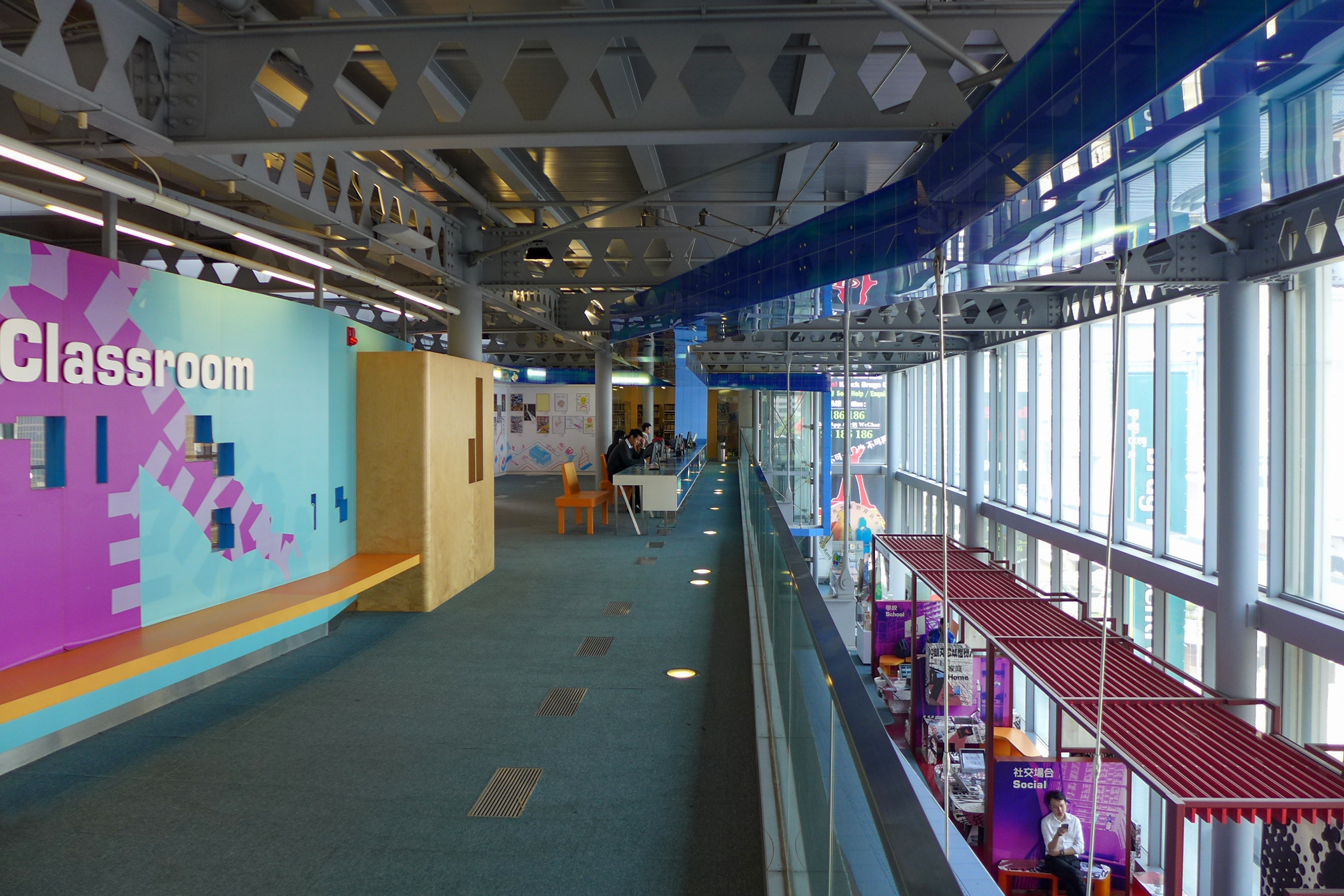 Queensway Government Offices Drag info Centre